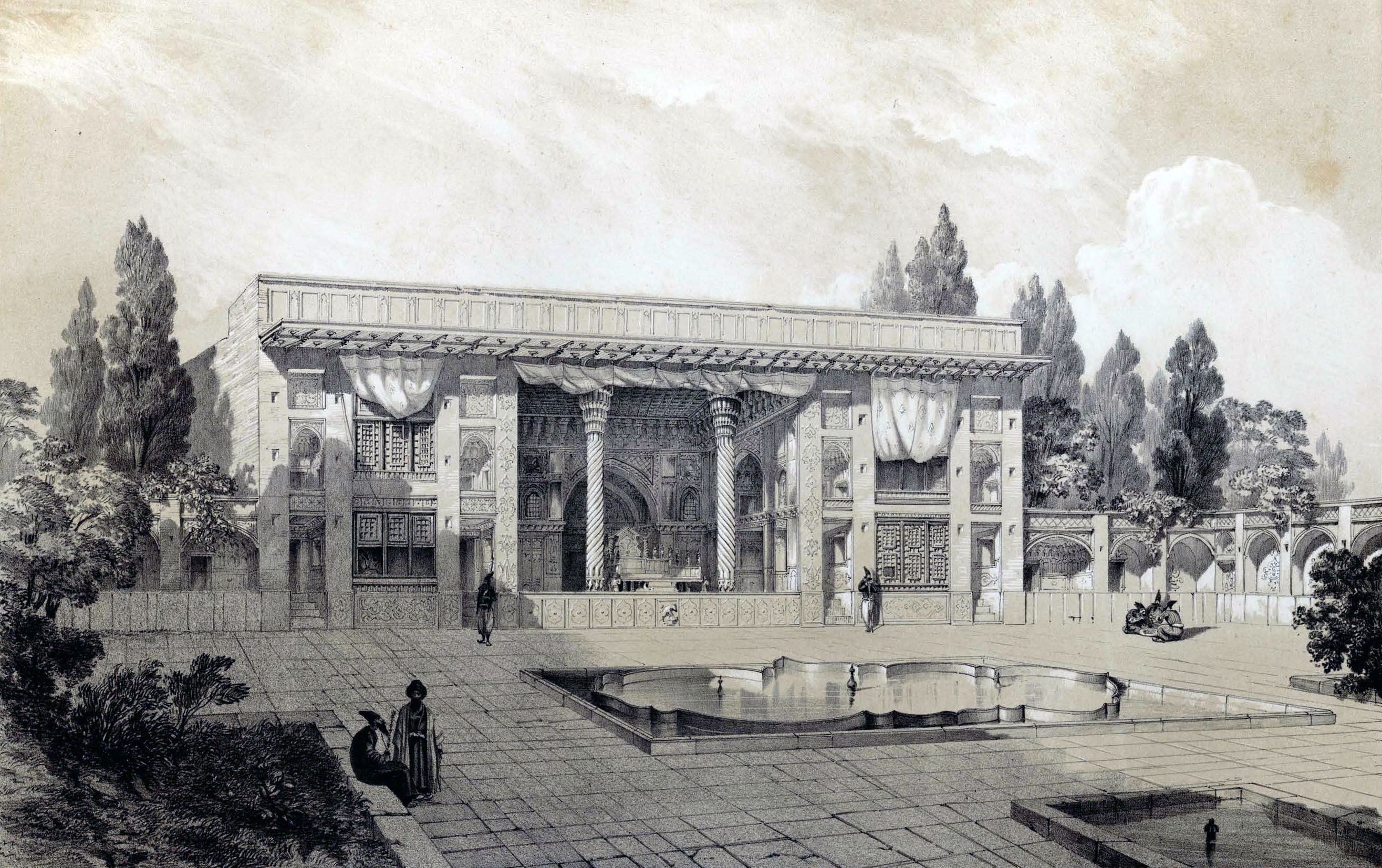 Exterior view of the throne room , Tehran